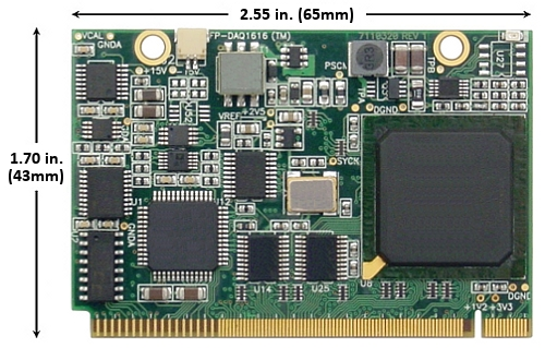 FeaturePak form-factor dimension drawing.